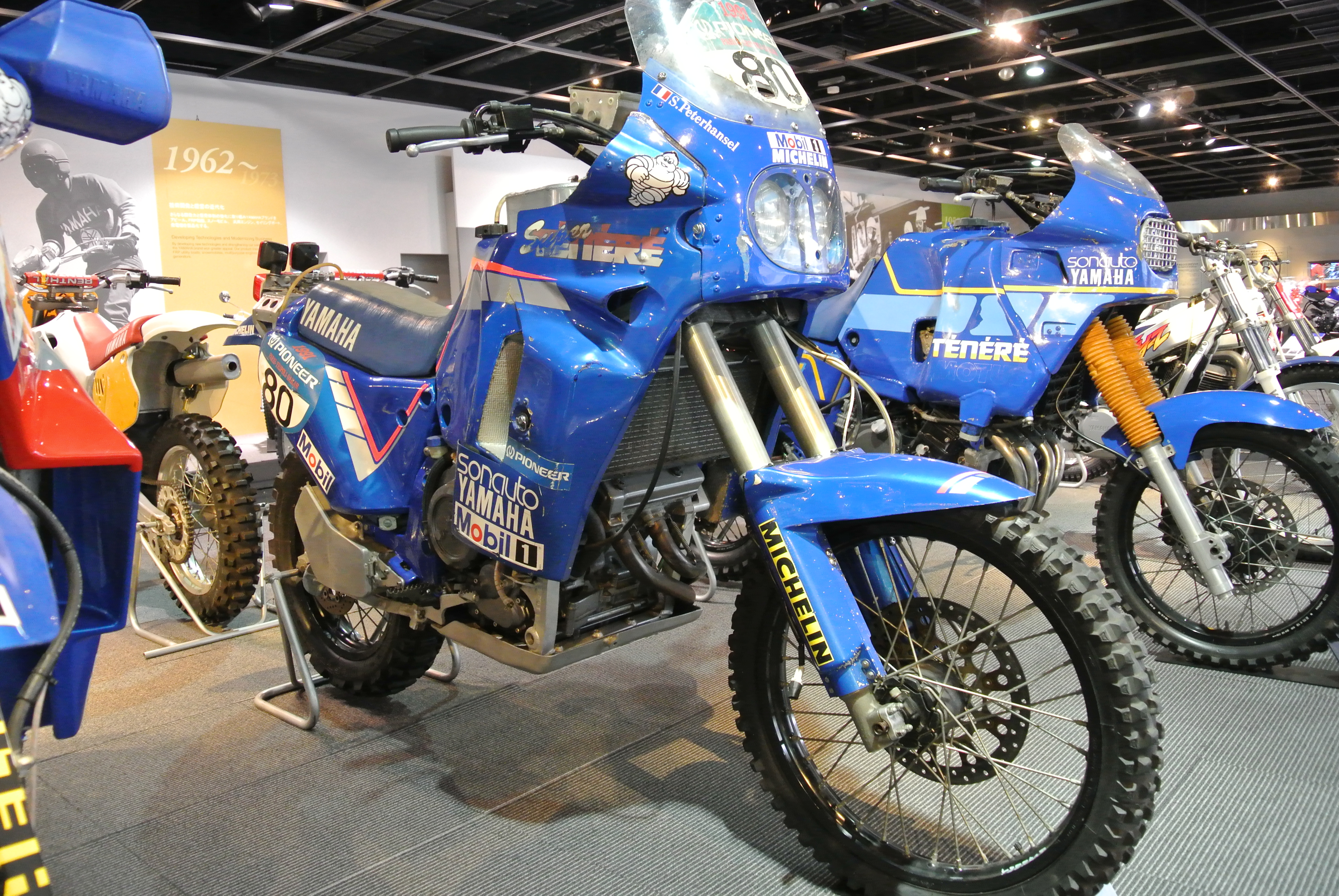 1991 Yamaha YZE750T Super Ténéré (OWC5) in the Yamaha Communication Plaza.